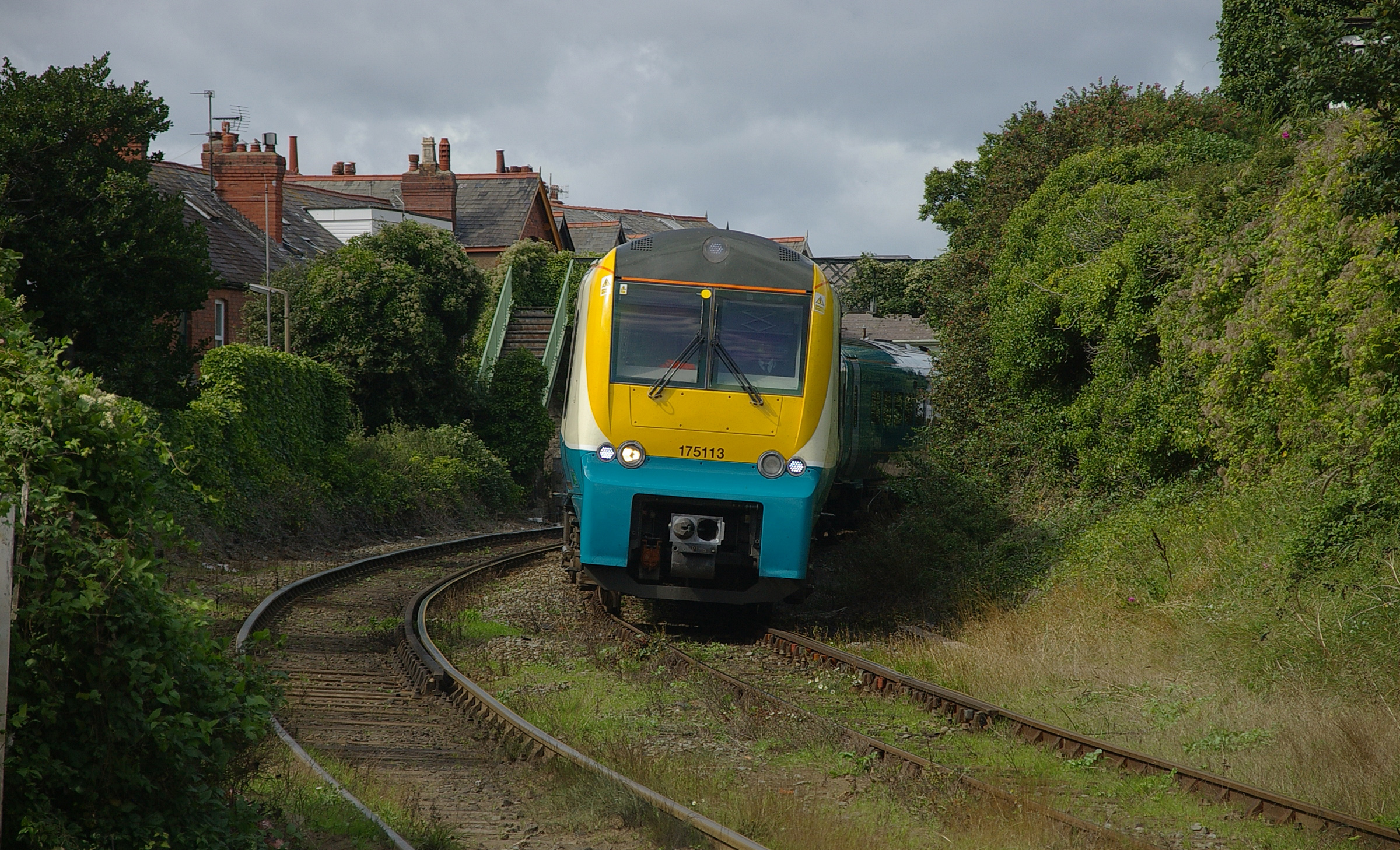 Arriva Trains Wales 175113 arrives at Deganwy with a service to Llandudno Junction.